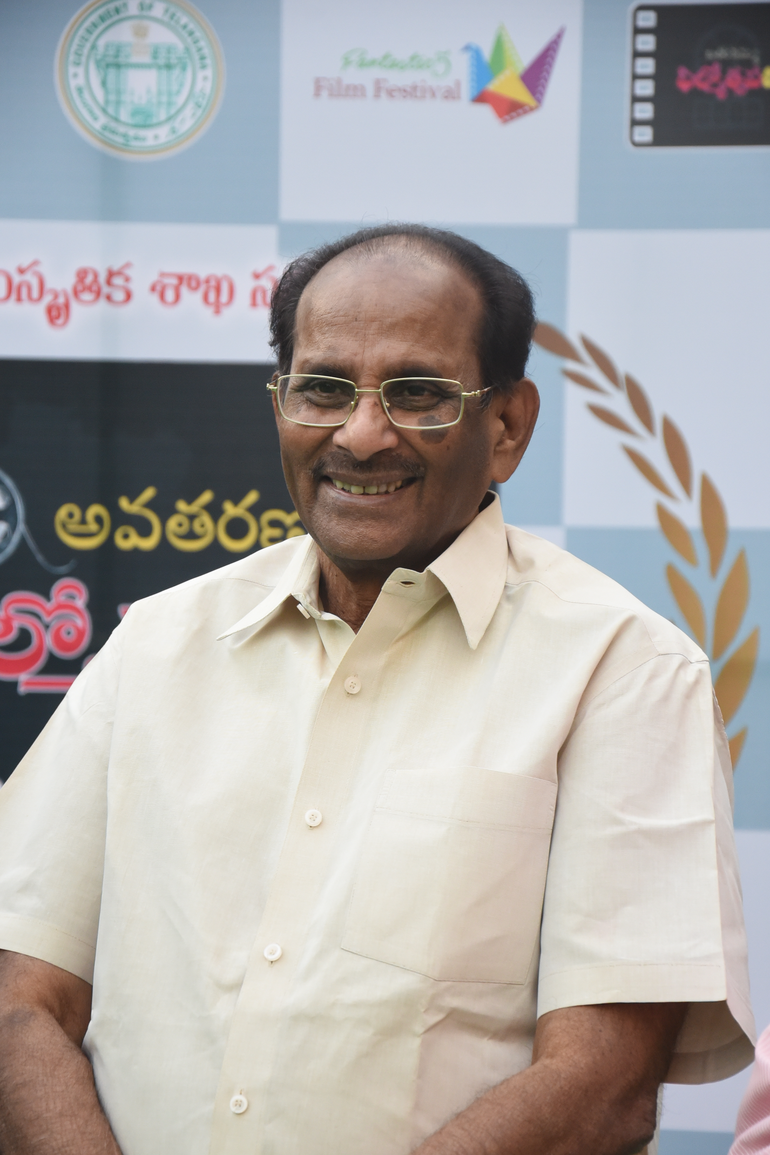 vijayendra prasad is telugu film Story Writer